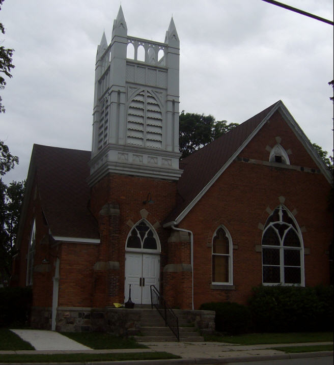 Richmond Community Theater in Richmond, Macomb County, Michigan, formerly a church.